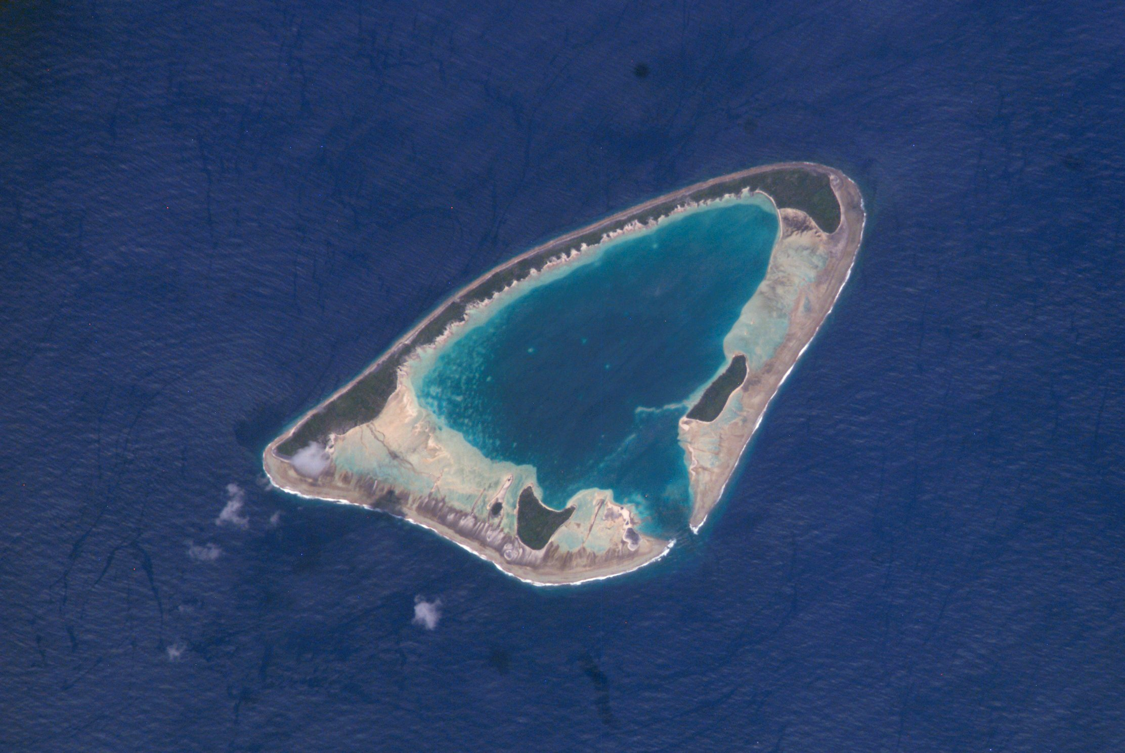 NASA Astronaut Image of Haraiki Atoll (Tuamotu Archipelago, French Polynesia) in the Pacific Ocean